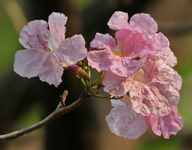 Tabebuia heterophylla? near Hyderabad, India.